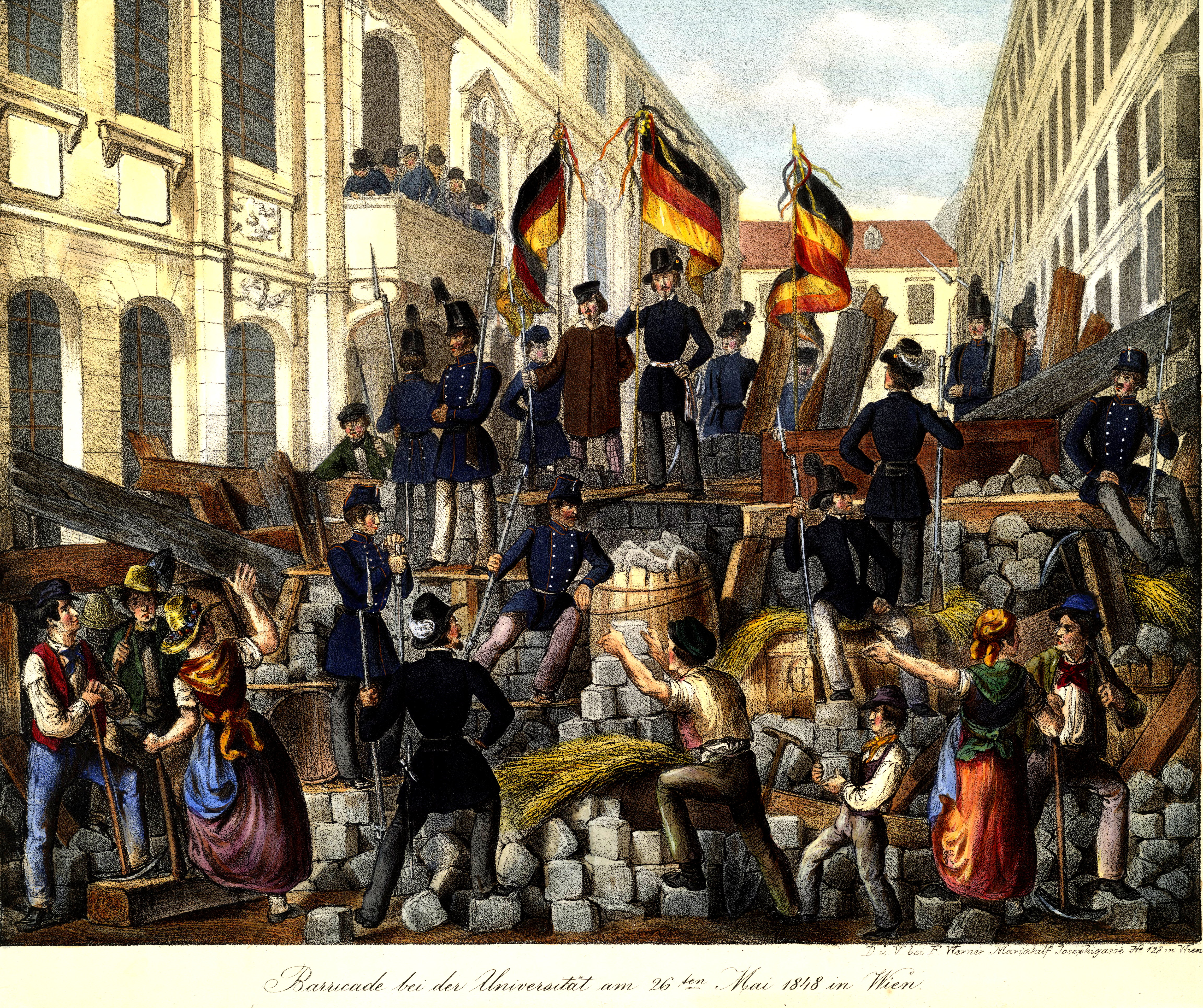 Barricade bei der Universität am 26ten Mai 1848 in Wien